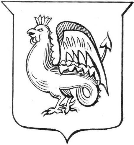 line art drawing of a cockatrice.